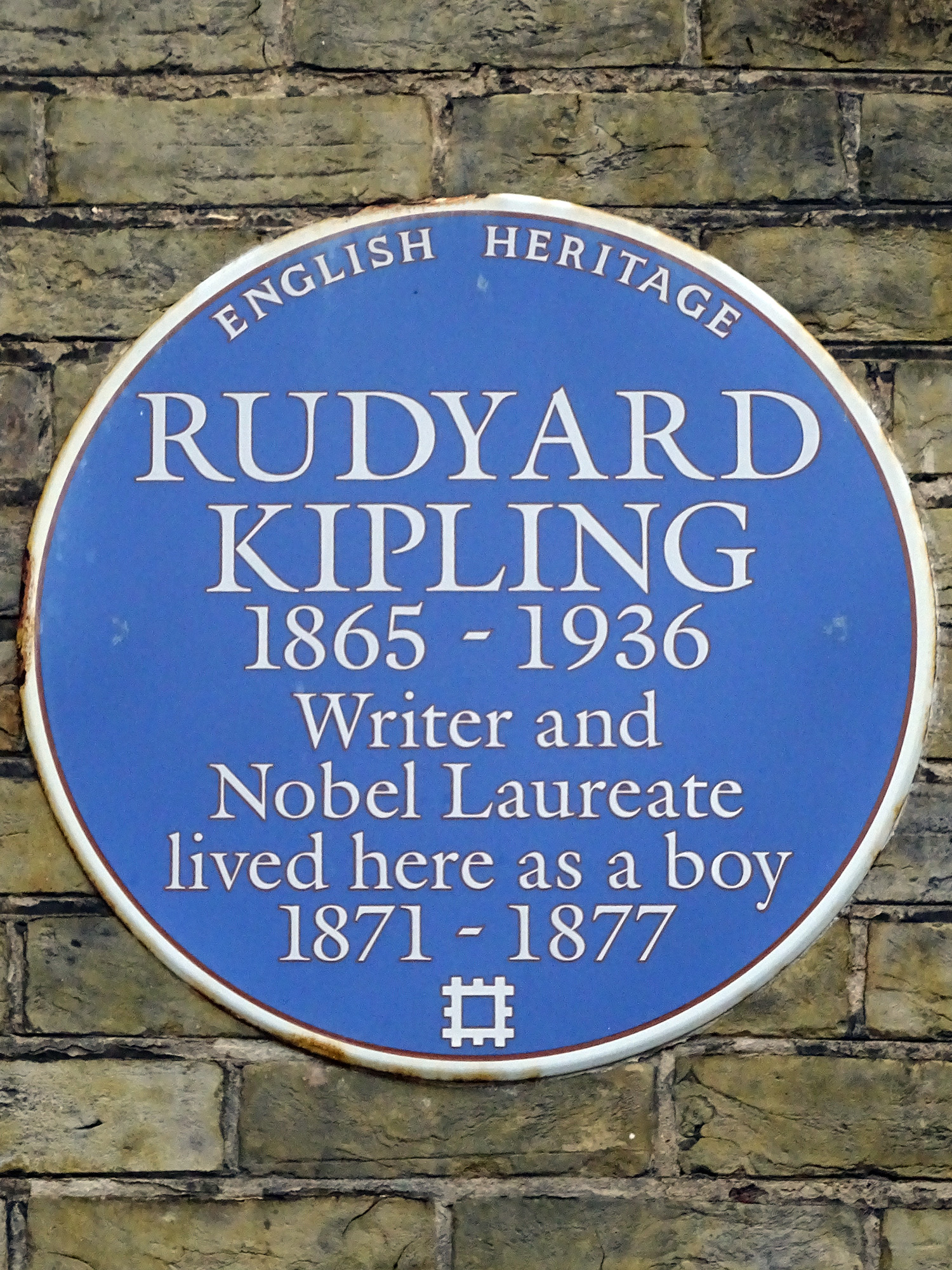 Blue plaque erected in July 2004 at Lorne Lodge, 4 Campbell Road, Southsea, Portsmouth PO5 1RN by English Heritage as part of the 2000-2005 national pilot scheme